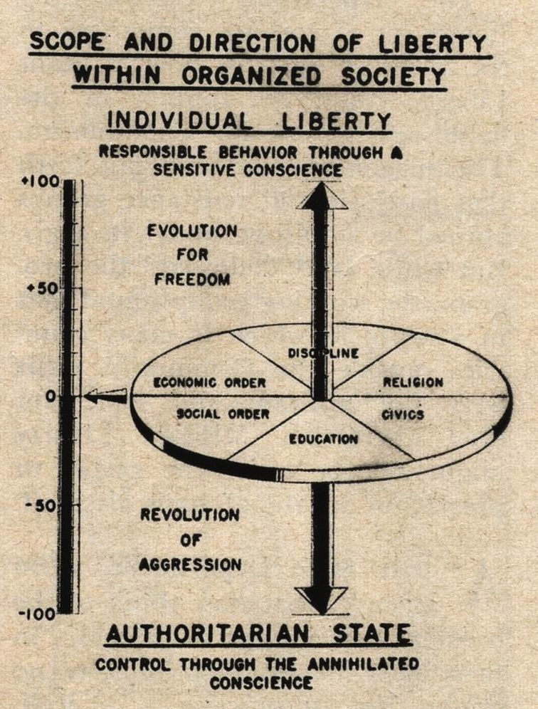 Chart depicting the scope and direction of liberty within organized society